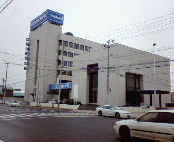 Aomoriken Credit Cooperative Head Shop Office